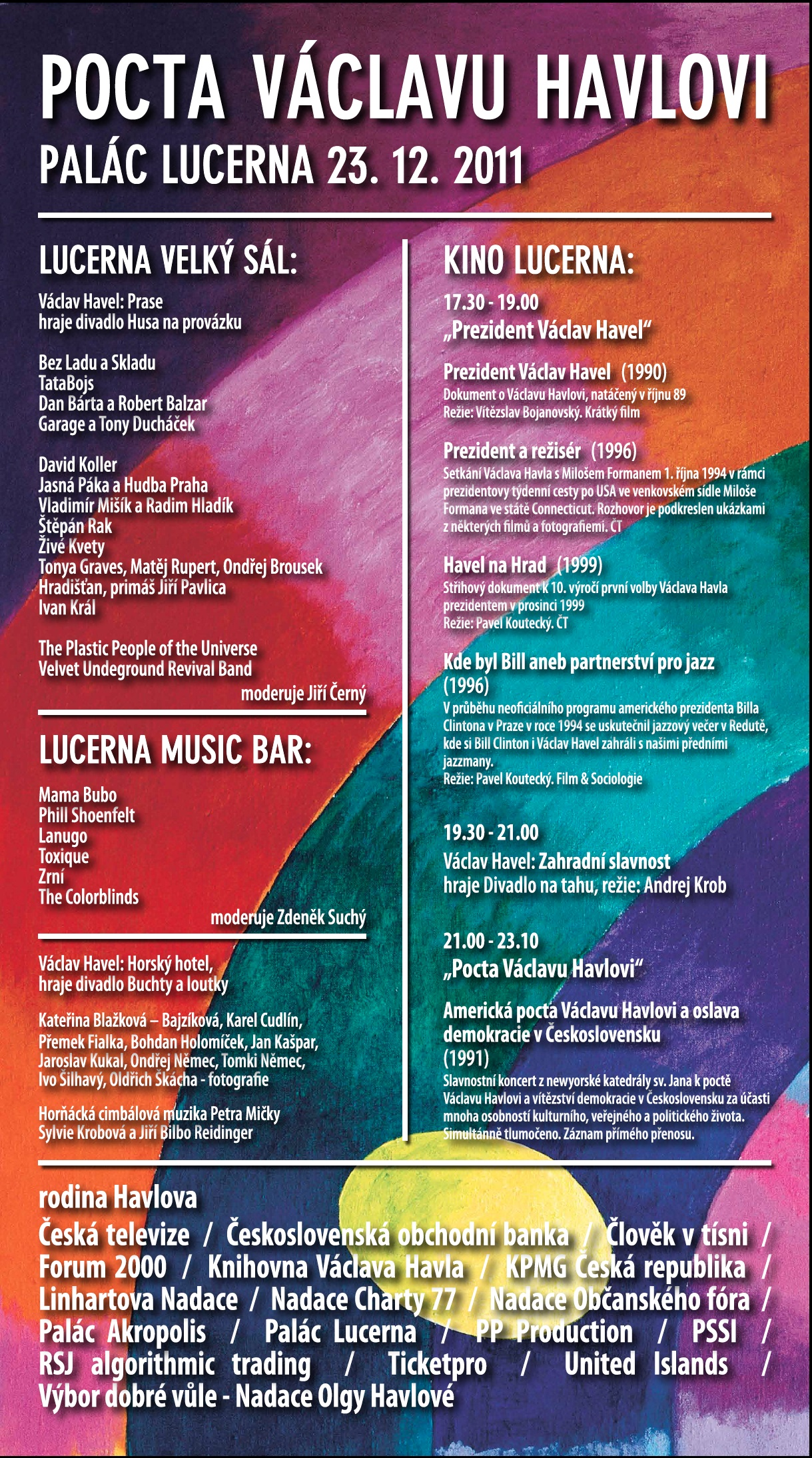 Tribute to Vaclav Havel, 23 December 2011, The Lucerna Palace, Prague - the poster